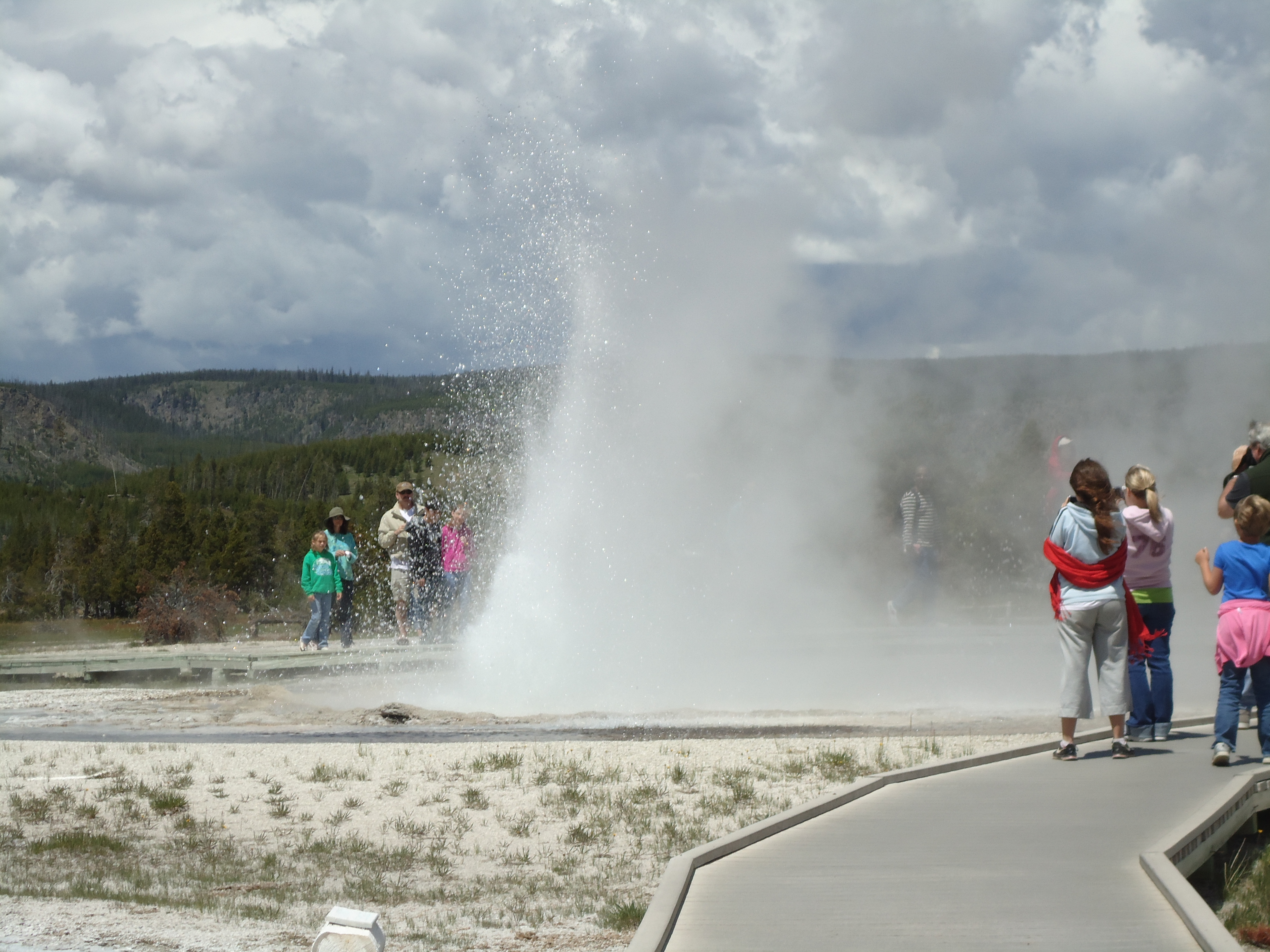 Sawmill Geyser erupting around 1 pm on July 5, 2010